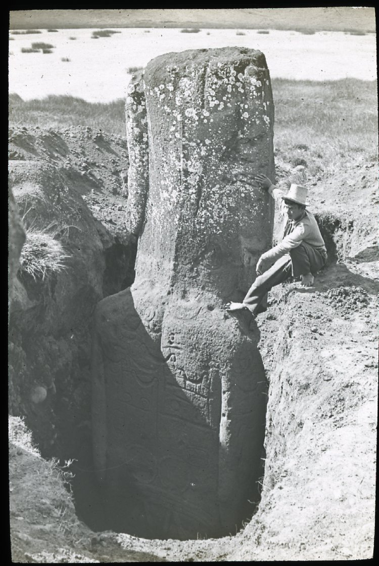 Photograph (black and white); lantern slide; view of the back of a moai (figure carving) with petroglyph carvings including a double loop and several canoe shapes; the sculpture is standing upright in the ground, partially excavated; a South American man is sitting on the ground, with one bare foot on the shoulder of the sculpture; Rano Raraku, Easter Island.